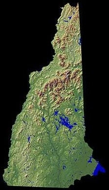 Shaded relief map of the US state of New Hampshire. By the United States Geological Survey.